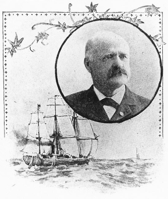 Richard Stout, Landsman, United States Navy. Halftone image published in Deeds of Valor, Volume II, page 43, by the Perrien-Keydel Company, Detroit, 1907. Landsman Stout was awarded the Medal of Honor for his actions on board USS Isaac Smith when the ship was captured by Confederate forces in the Stono River, South Carolina, on 30 January 1863.